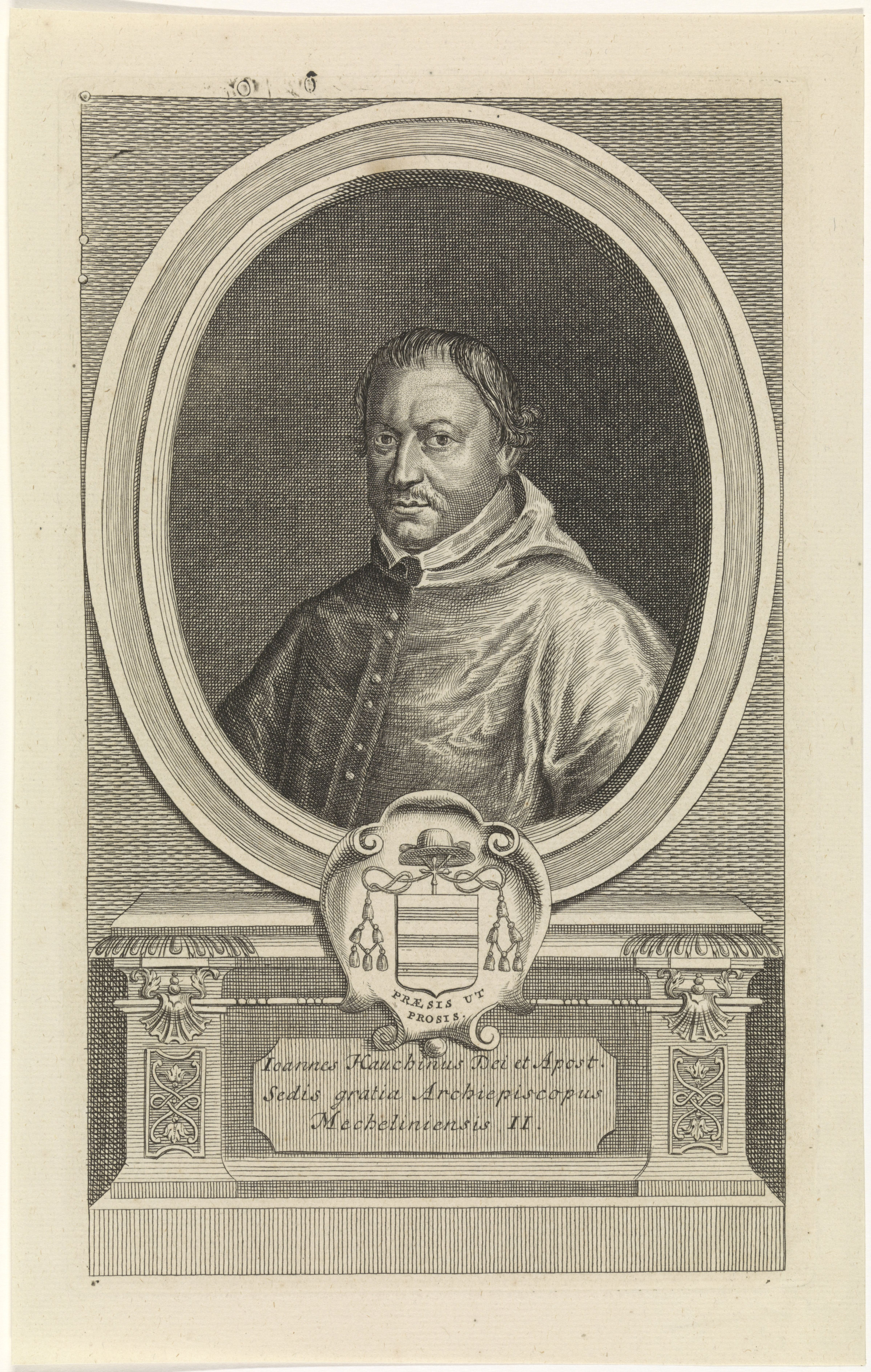 Jan Baptist Jongelinck's engraving of a portrait of Joannes Hauchin, Archbishop of Mechelen. Made around 1720. Published in Cornelis van Gestel, "Historia sacra et profana archiepiscopatus Mechliniensis"(1725)